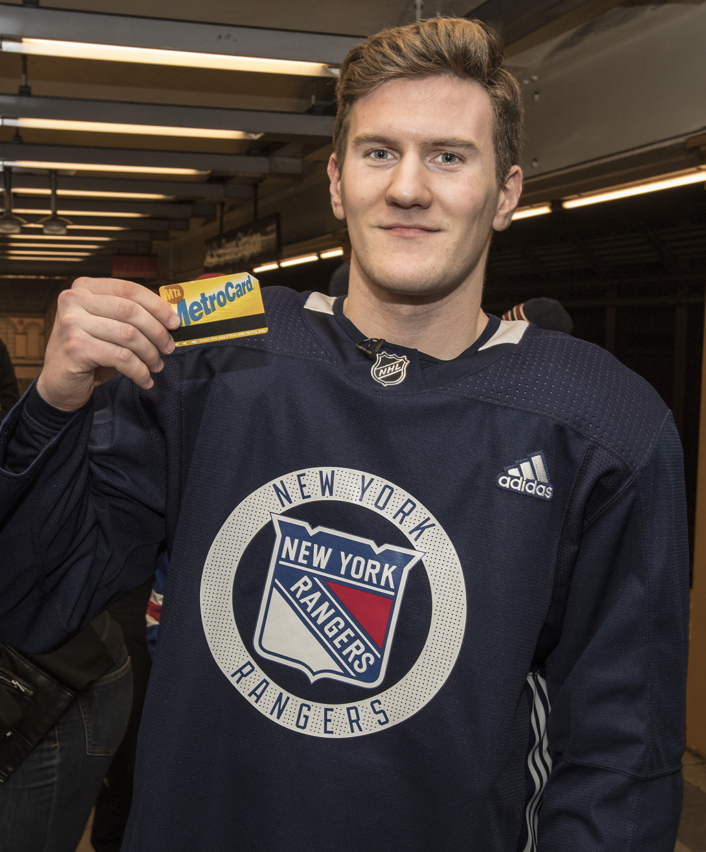 Adam Fox riding the subway to Lasker Rink in Central Park